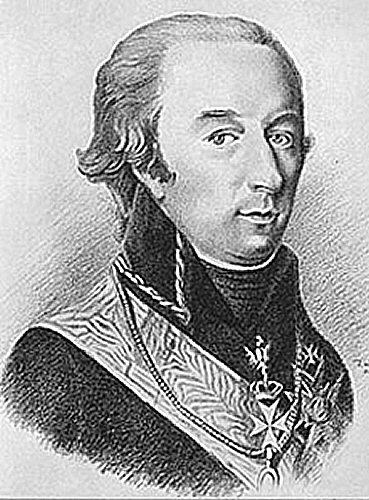 Admiral C.O.Cronstedt